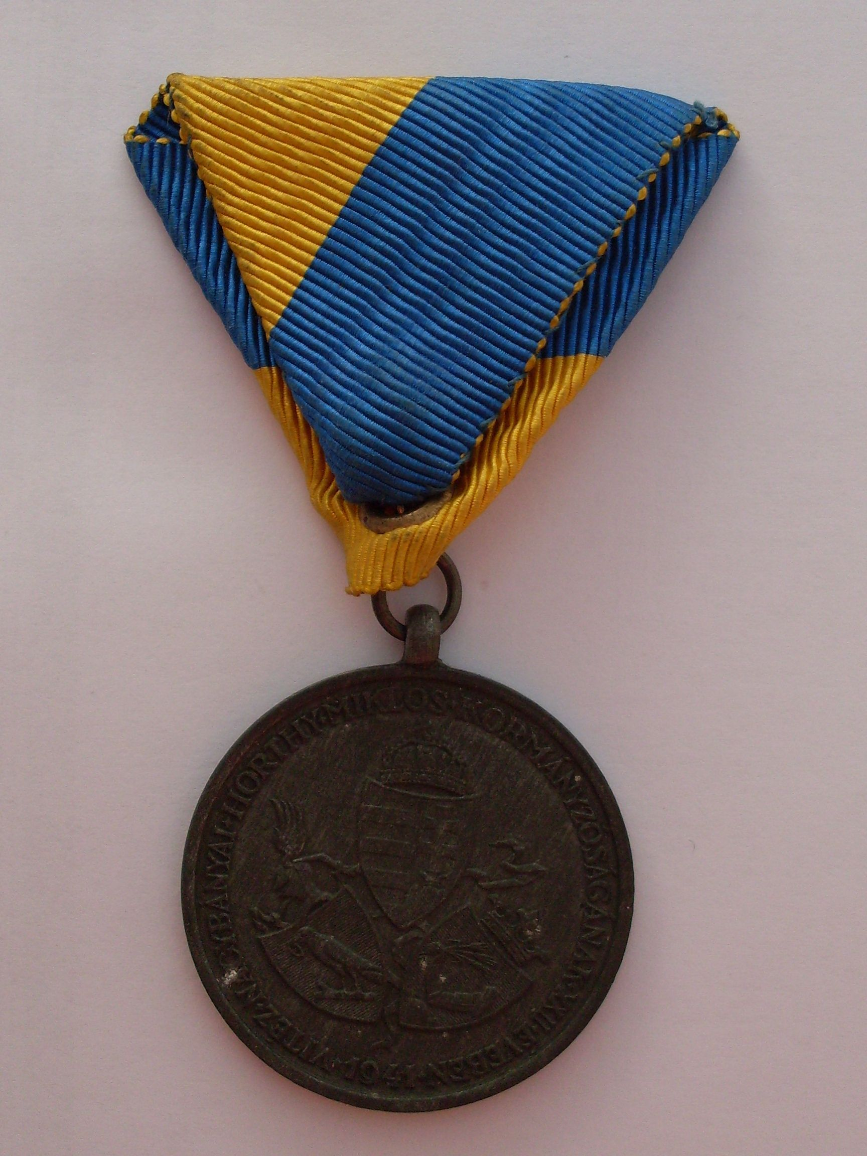 Commemorative Medal for the Return of South Hungary